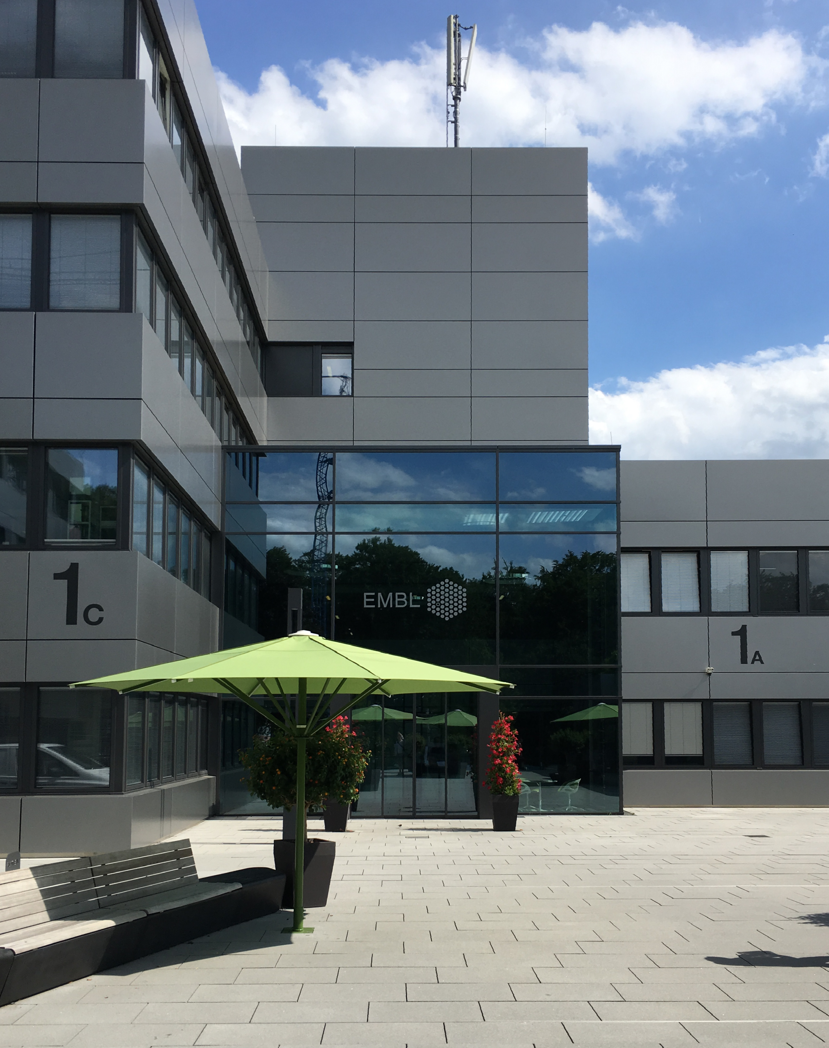 The main entrance to EMBL Heidelberg on a sunny summer day.